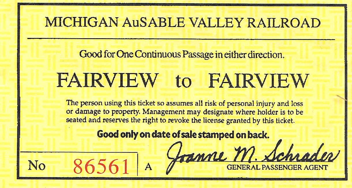 Photo of railroad passenger ticket